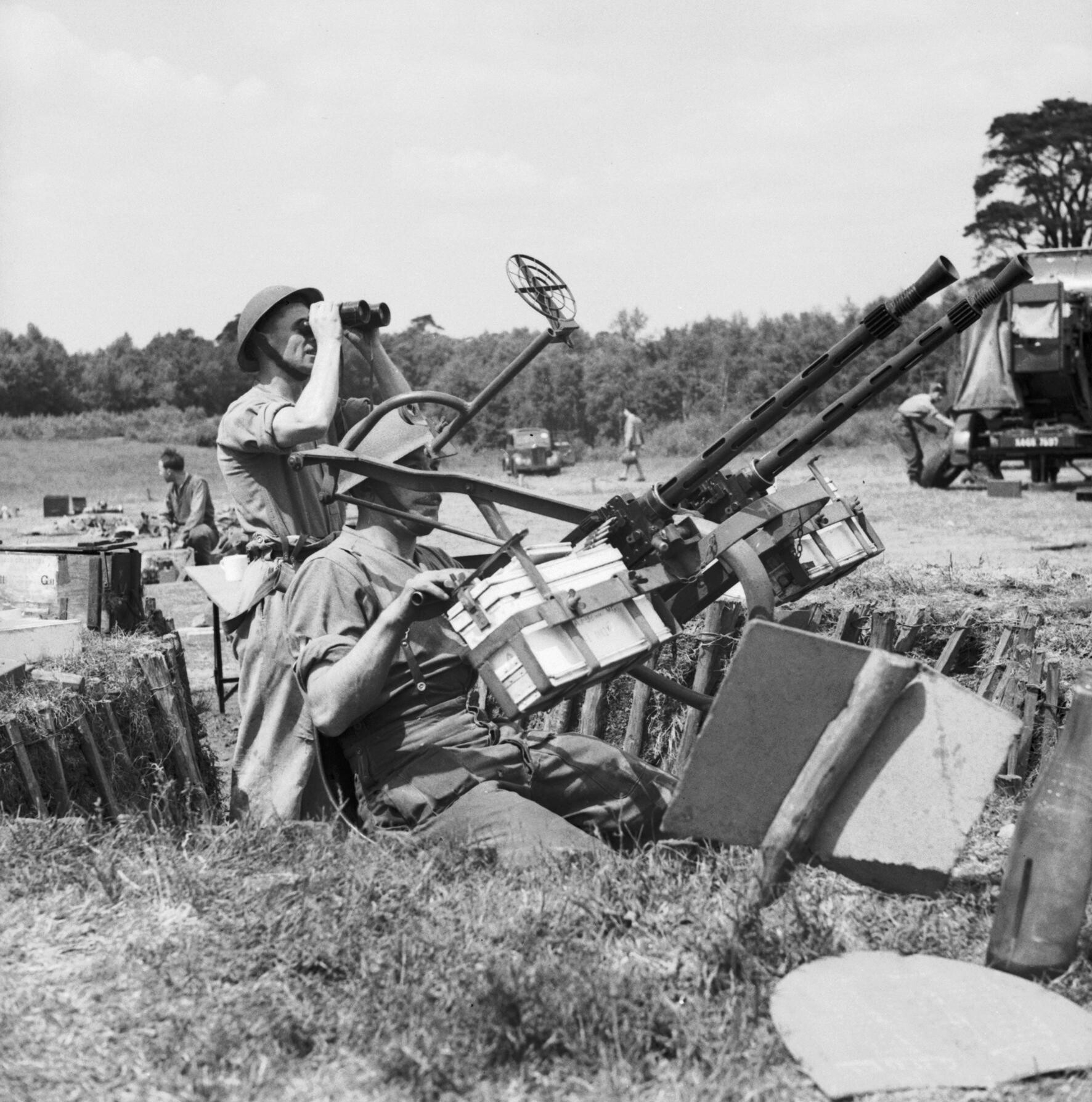 The crew of a twin-Browning light anti-aircraft gun keep watch for V-1 flying bombs, 19 June 1944. The crew of a twin-Browning light anti-aircraft gun keep watch for V1 flying bombs, 19 June 1944.